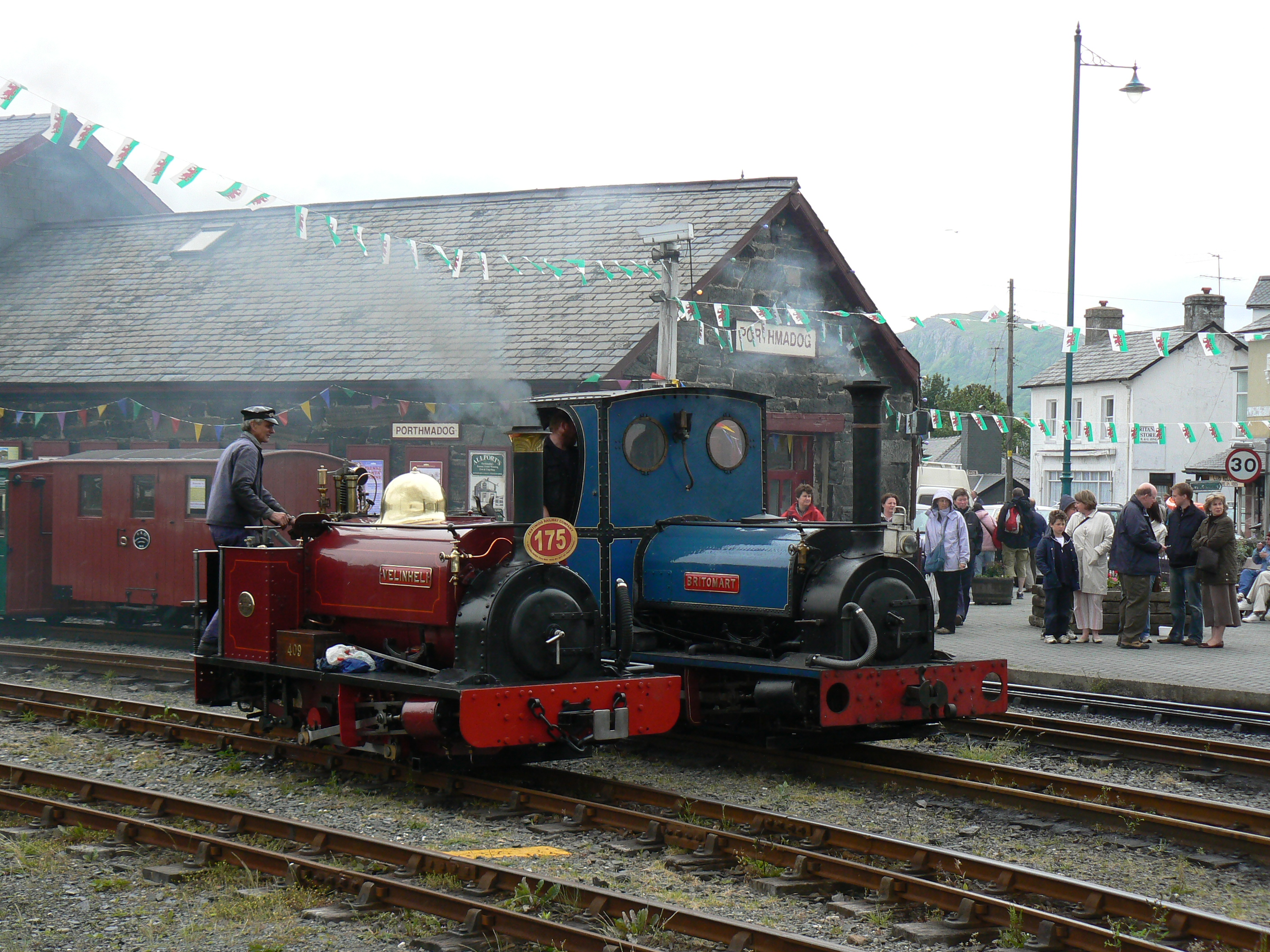 Ffestiniog Railway locomotive Britomart and guest Velinheli during the FR's 175th anniversary at Porthmadog Harbour railway station.